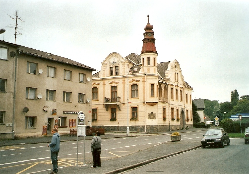 Nýrsko town in Klatovy district, Czech Republic. The municipality house.